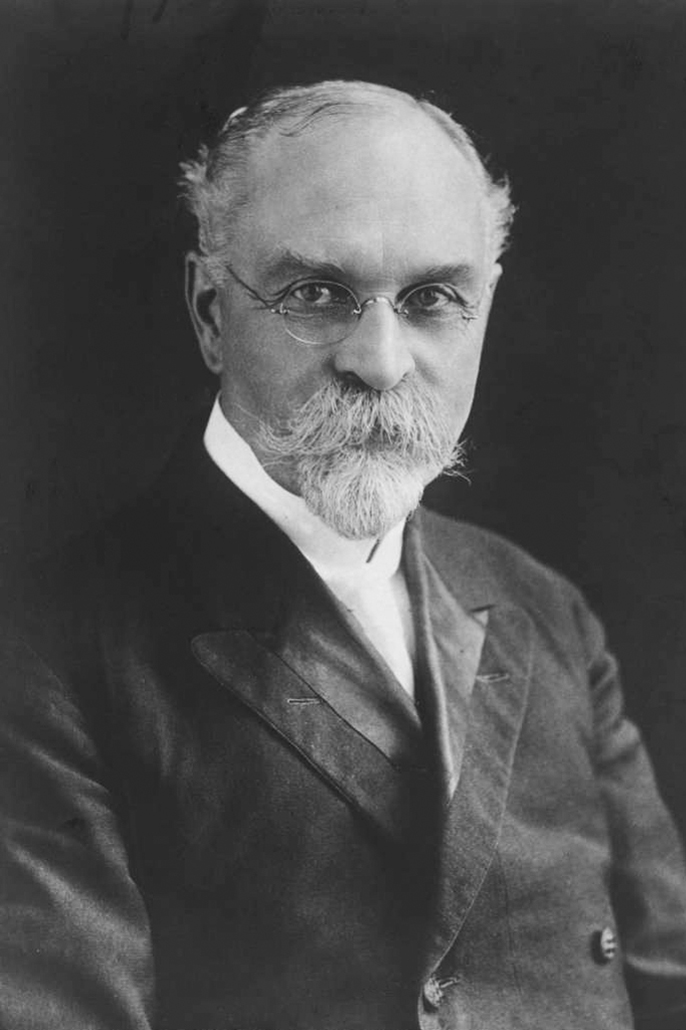 Arthur G. Daniells, President of the General Conference of Seventh-day Adventists between 1901 and 1922.